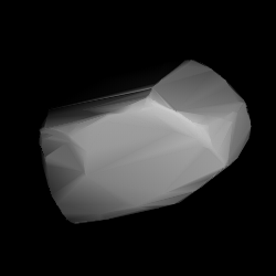 3D convex shape model of 1961 Dufour, computed using light curve inversion techniques. J. Hanuš, J. Ďurech, M. Brož, B. D. Warner (June 2011). "A study of asteroid pole-latitude distribution based on an extended set of shape models derived by the lightcurve inversion method". Astronomy and Astrophysics 530: A134. ISSN 0004-6361. arXiv